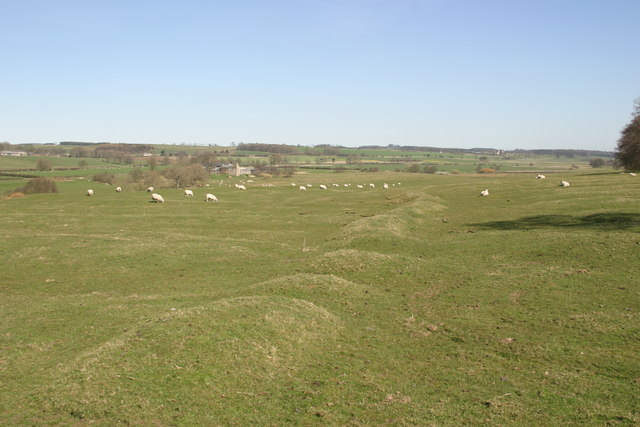 South Middleton deserted village The rains of the village can be seen on both sides of the road. There is evidence of "ridge and furrow" field systems and mounds showing where houses would have stood.